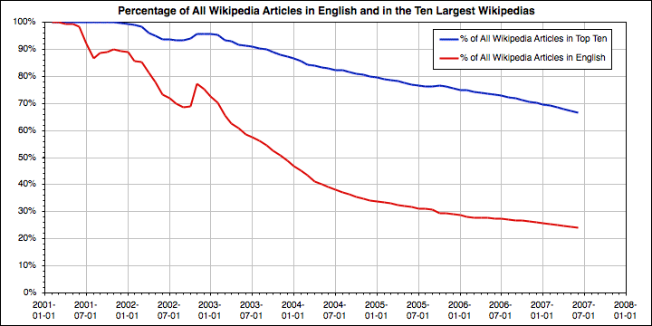 Graph of the article count for each of the ten largest Wikipedias along with the sum for all Wikipedias, from January 2001 to June 1, 2007.